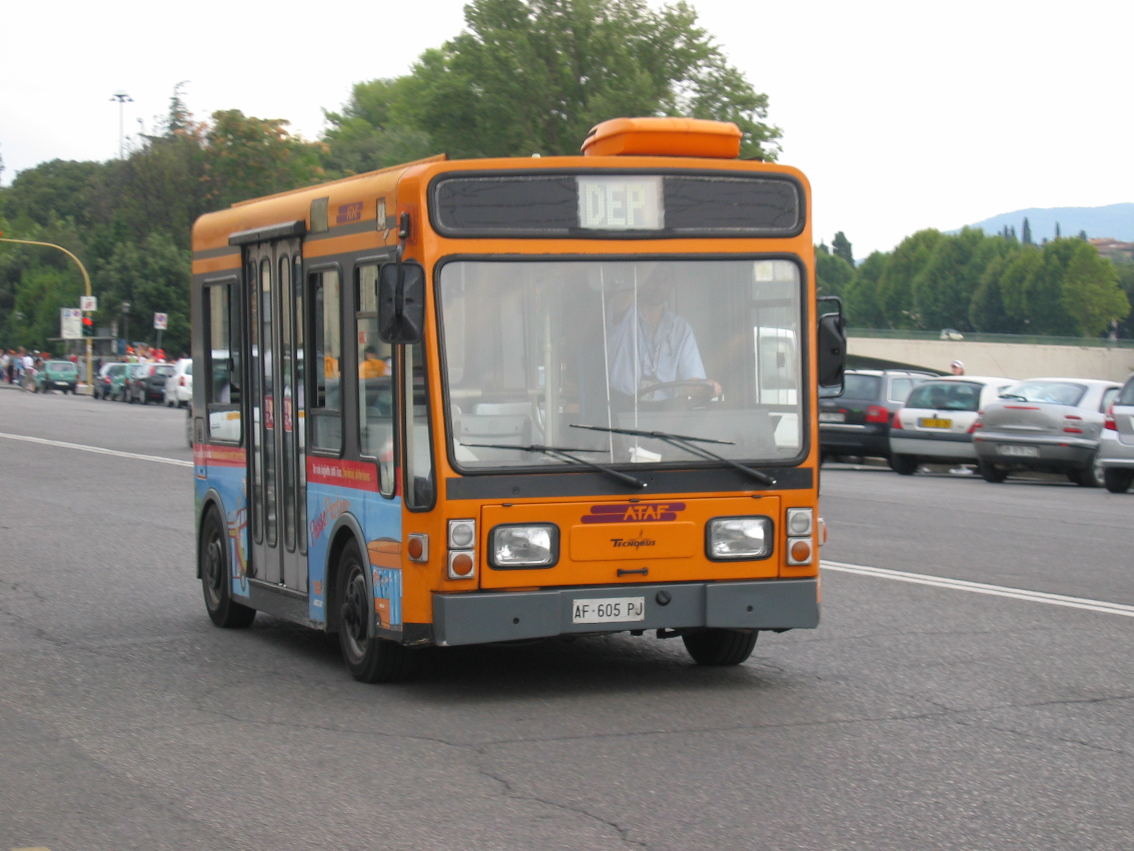 Minibus. Florence, Italy.